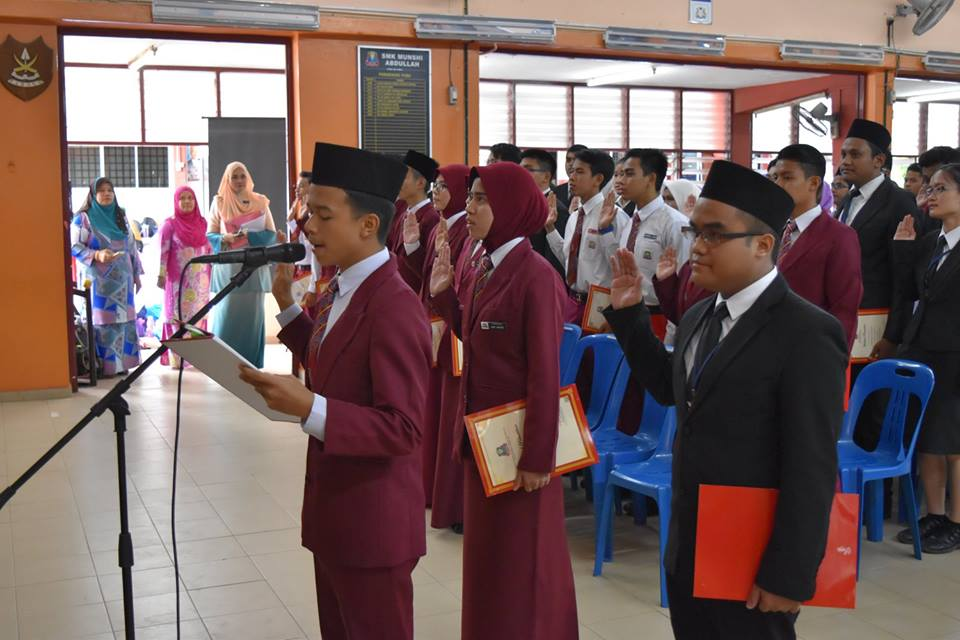 Majlis Pelantikan Pemimpin Pelajar